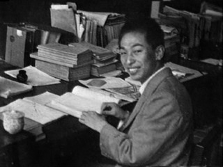 Kiyoshi Itō, Official of the Cabinet Statistics Bureau, posed for photos at the Cabinet Statistics Bureau in Tōkyō City, Tōkyō Prefecture on 1940.